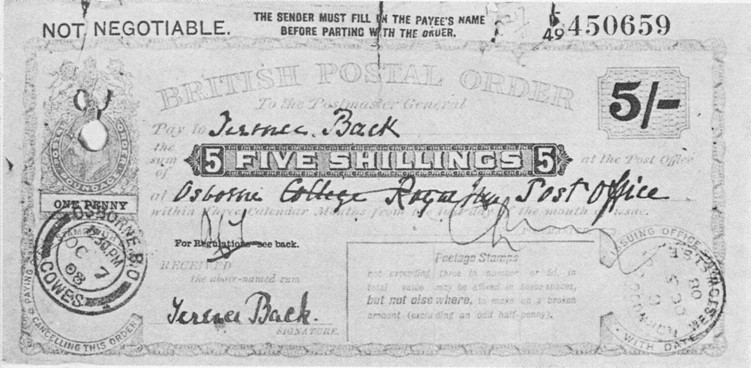 The postal order sent to Cadet Terence Back and allegedly cashed by George Archer-Shee on April 7, 1908.